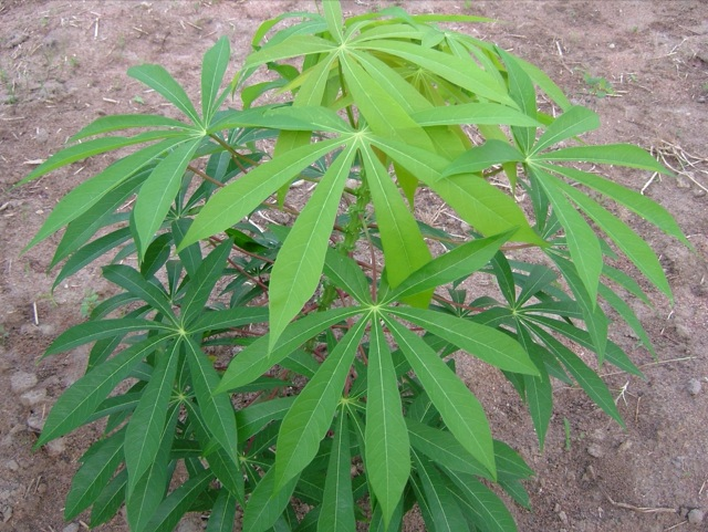 Manihot esculenta, cassava plant, in rayong, thailand, Aug 5 2005. photograph by iwata kenichi.